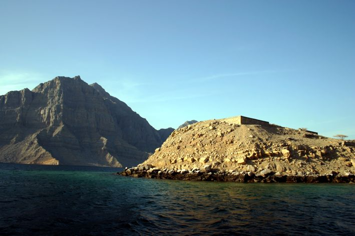 The site of the old telegraph station near Kasab offshore the Omani Musandam Peninsular.